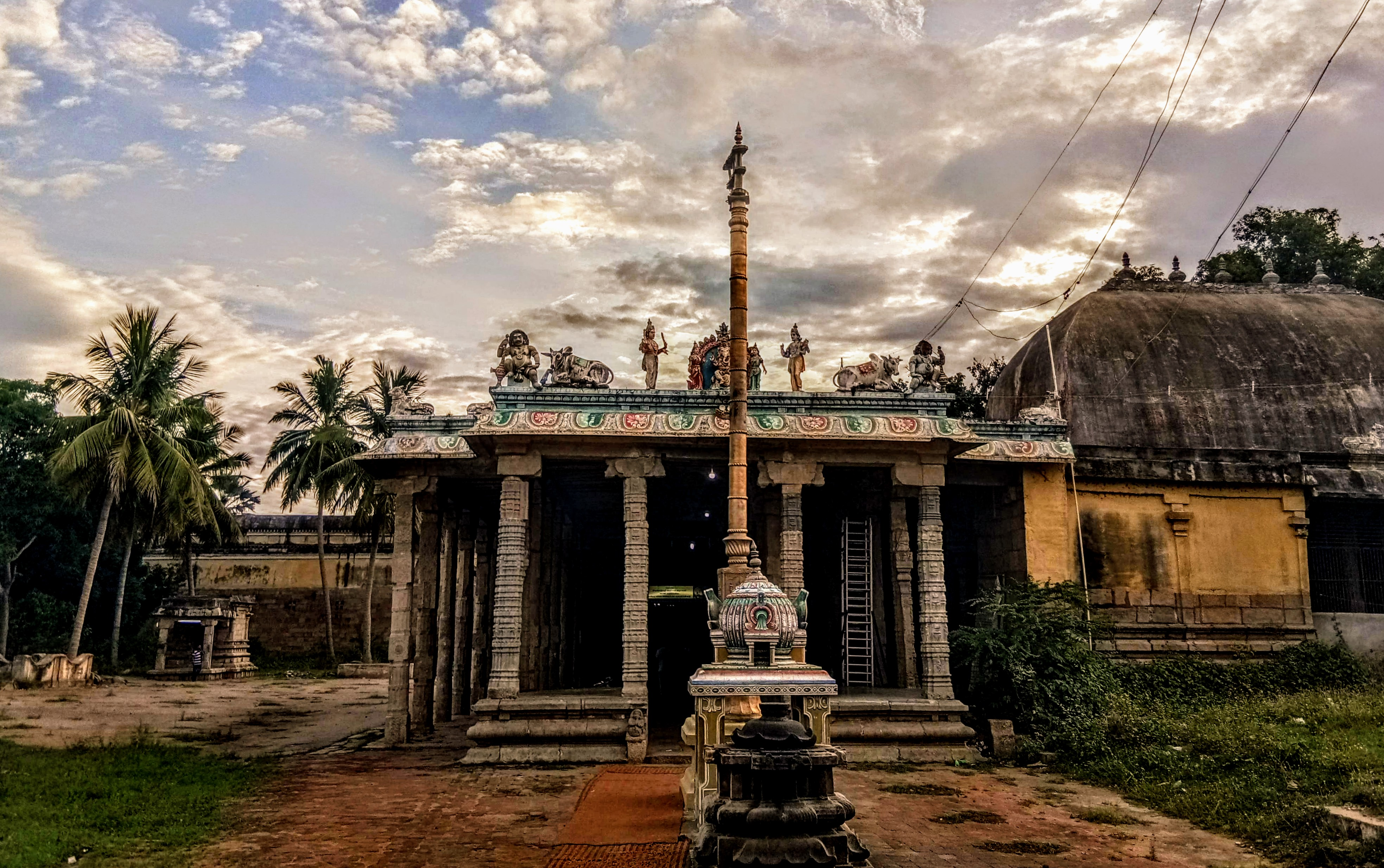 Swami Swetha Vinayakar is made out of Parkadal Nurai (Sea Water foam). The Dharsan will be through a window made of stone